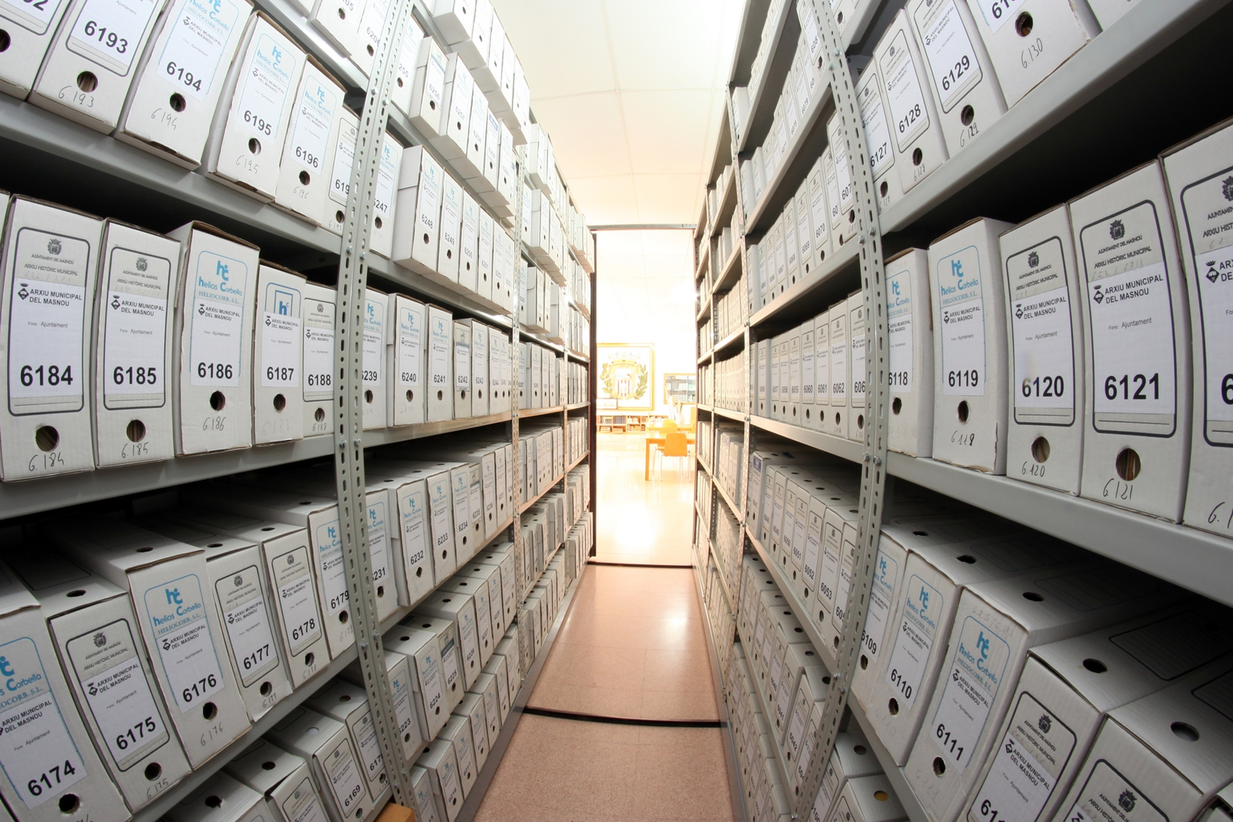 View to the outside from a compact cabinet of the Municipal Archives of El Masnou (Spain).